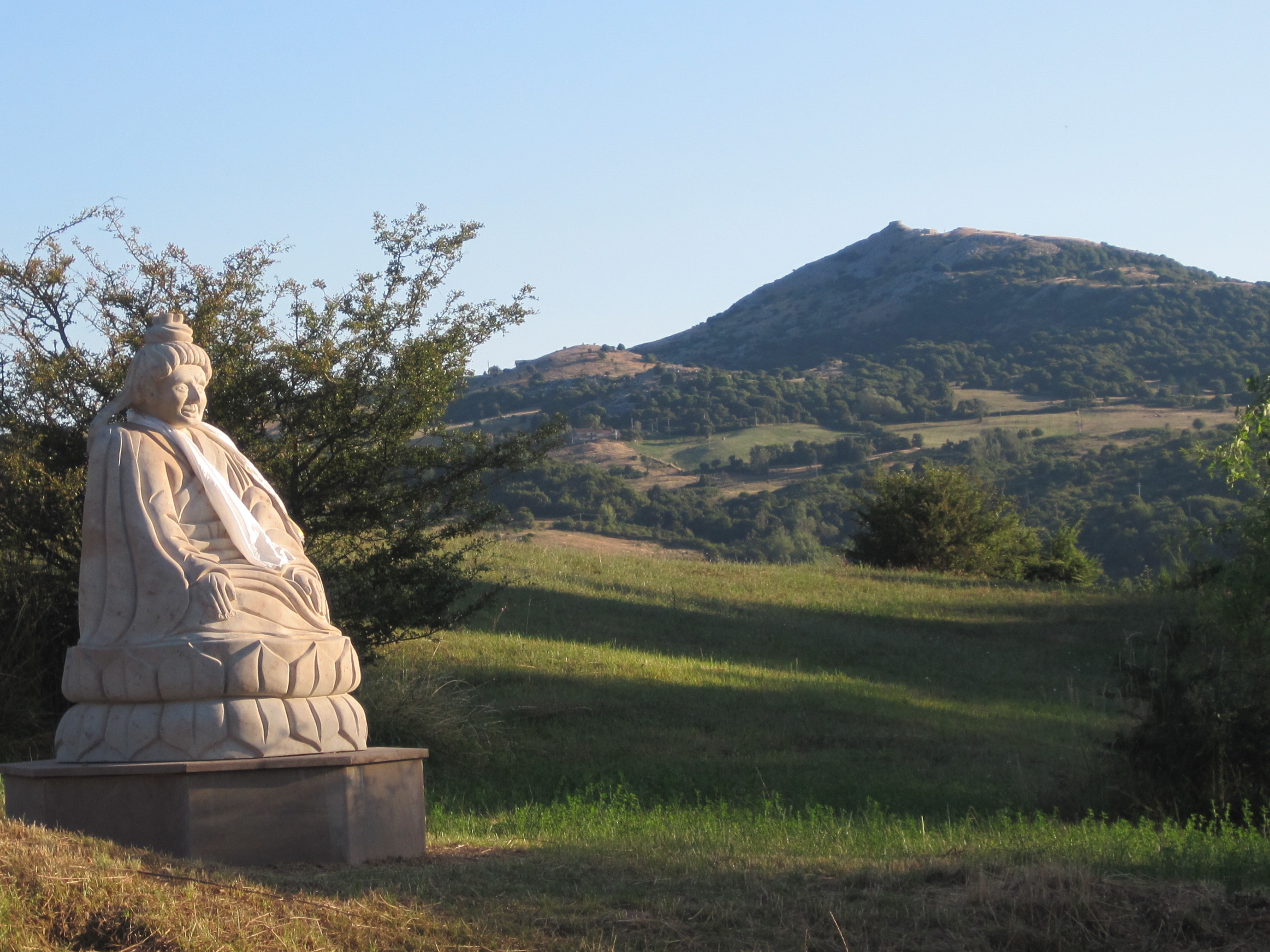 The statue of Buddha in Merigar West (Grosseto)